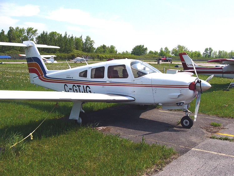 I took this photo of a Piper PA-28-201 Arrow IV (C-GTJG) at Rockcliffe Airport on 26 May 2007.